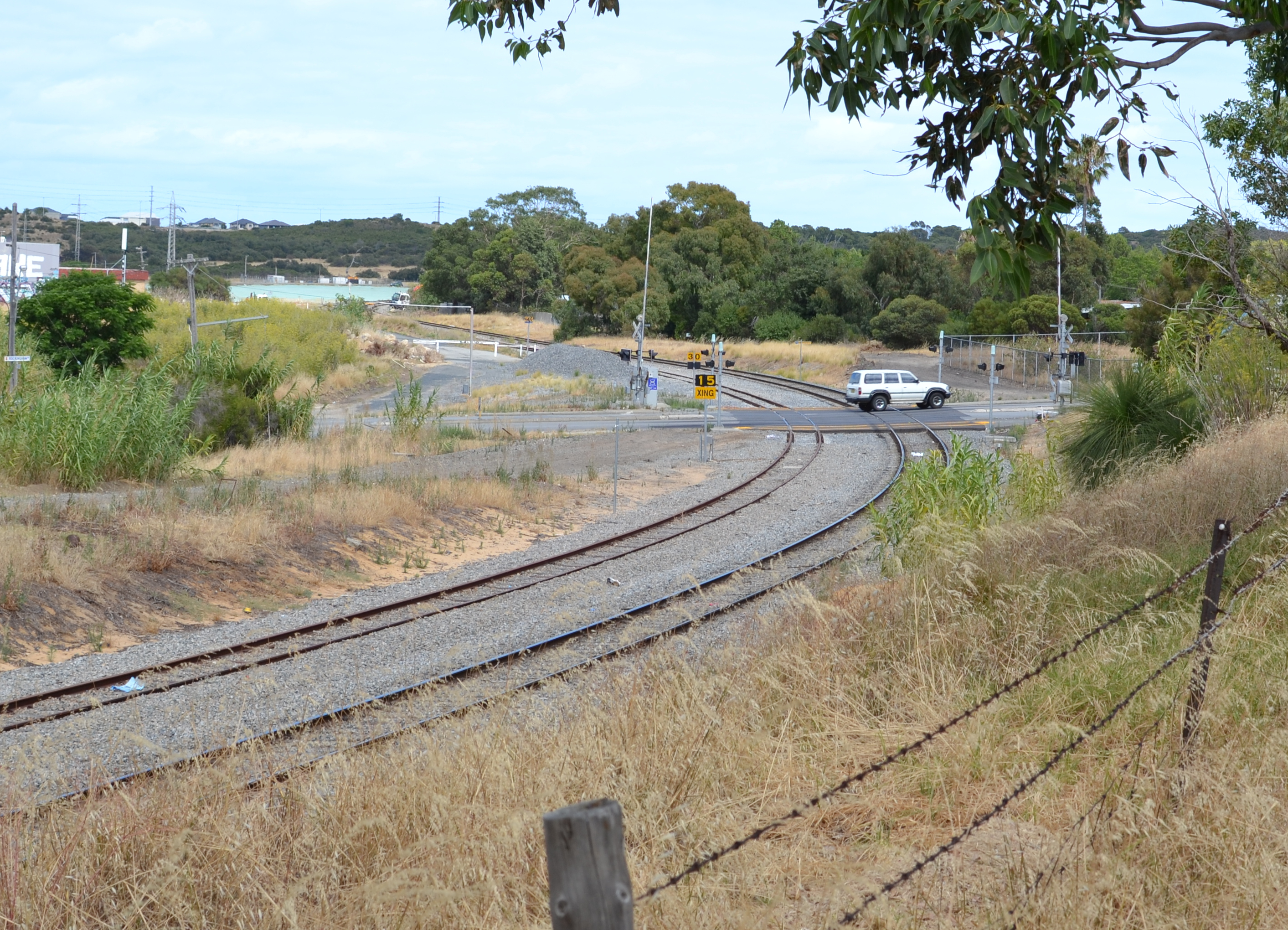 Cropped.